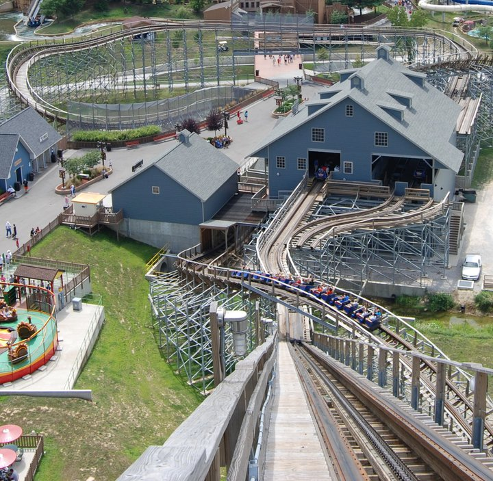 A view of The Voyage, as seen from the roller coaster's lift hill. The station is the building on the right (the transfer track and maintenance area can be seen in the right opening of this building). The gift shop is the blue building just to the left of the station. Behind the station the primary brake run and the entrance to the Thanksgiving section can be seen.